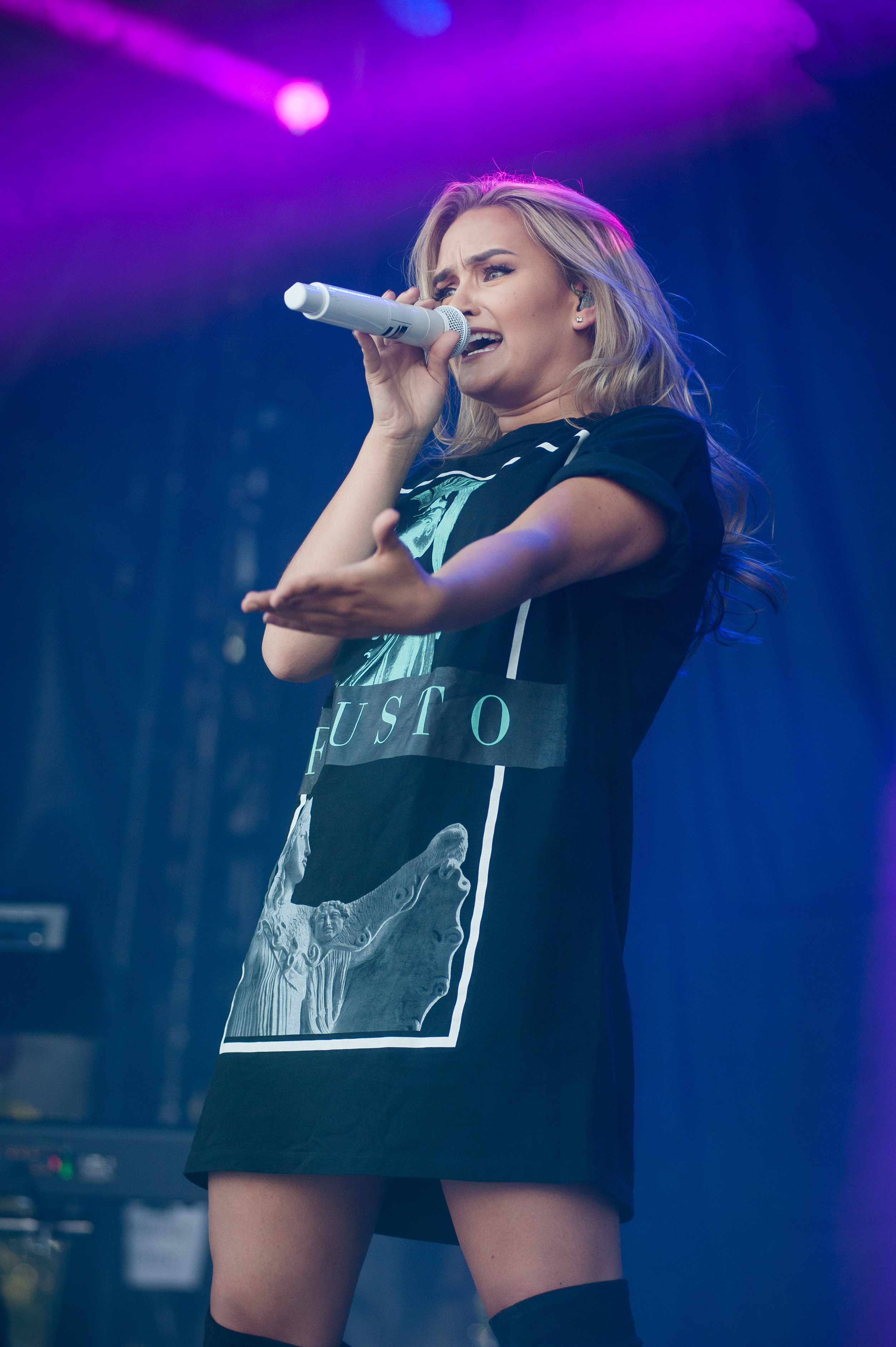 Finnish singer Nelli Matula performing at the 2018 Ilosaarirock festival in Joensuu, Finland.